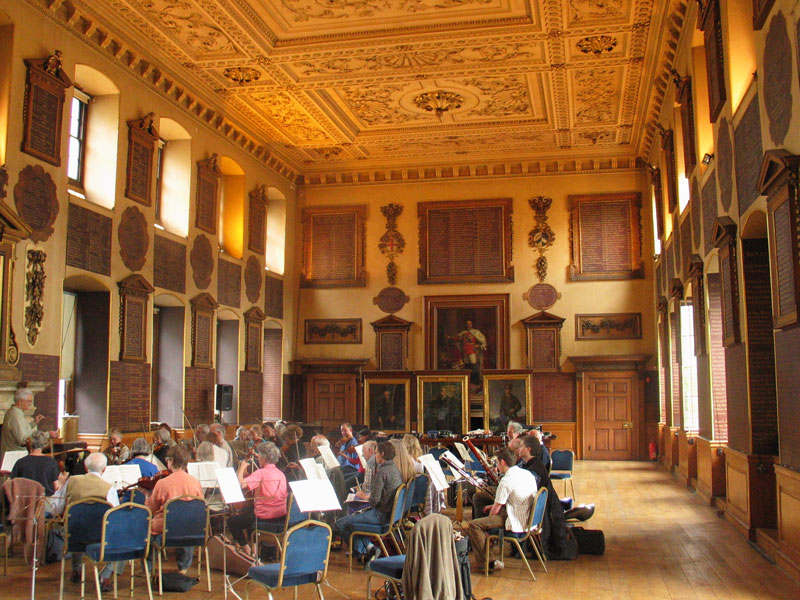 Barts, Great Hall, photo by Nevilley